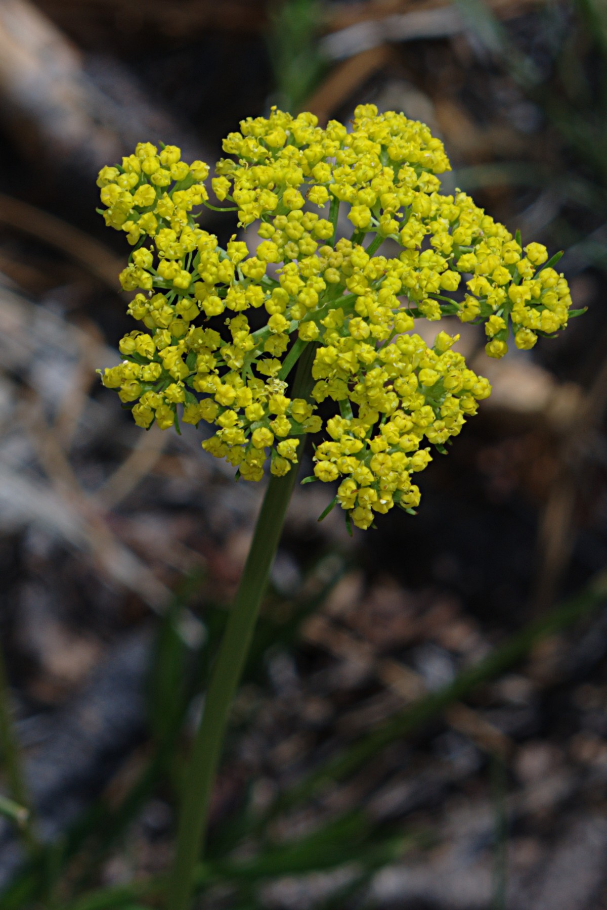 Inflorescence (umbel) of mountain parsley, chimajá, Pseudocymopterus montanus (I think), Upper Crossing Trail, Bandelier National Monument. a little unsharp mask.